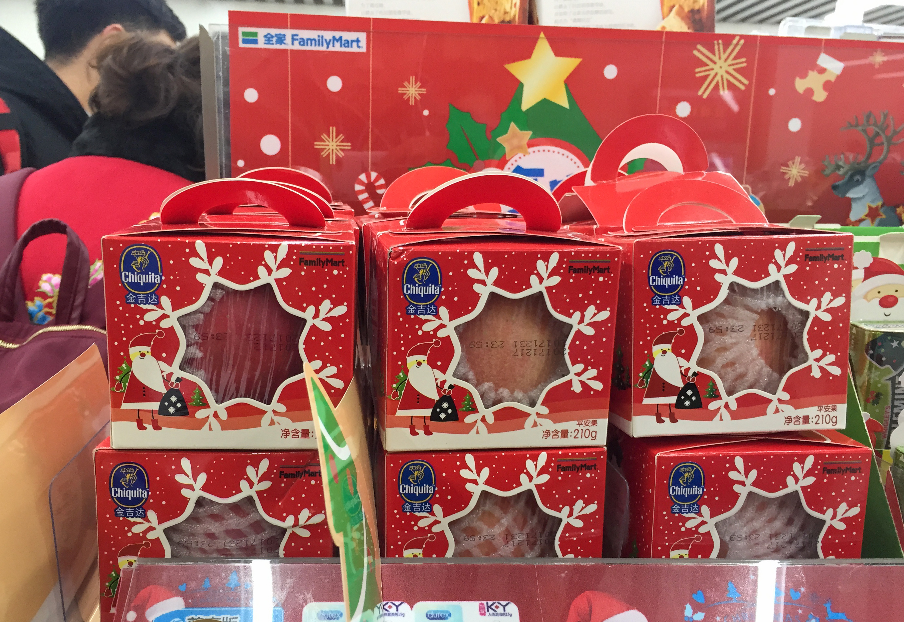 Sold for CNY 10 or so. Sending apples on Christmas eve has become a new X-mas custom in China, where Christmas is nearly secularized. The reason? Christmas Eve is called "平安夜" (píng’ān yè) in Chinese, while apples (苹果, píngguǒ) sounds like something "peaceful", therefore people began sending apples for season's greetings, regardless of any Christian taboos.